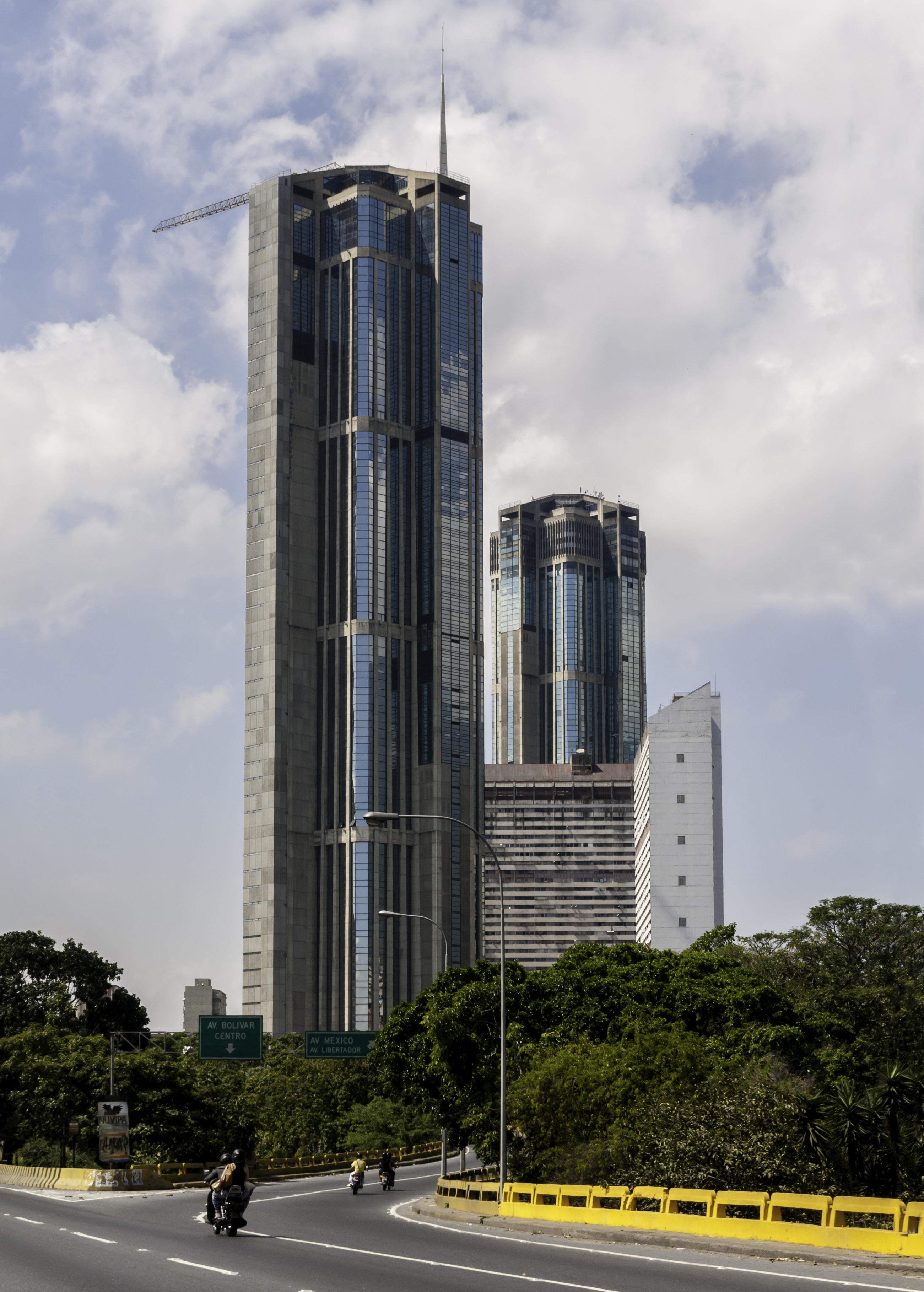 Caracas Central Park